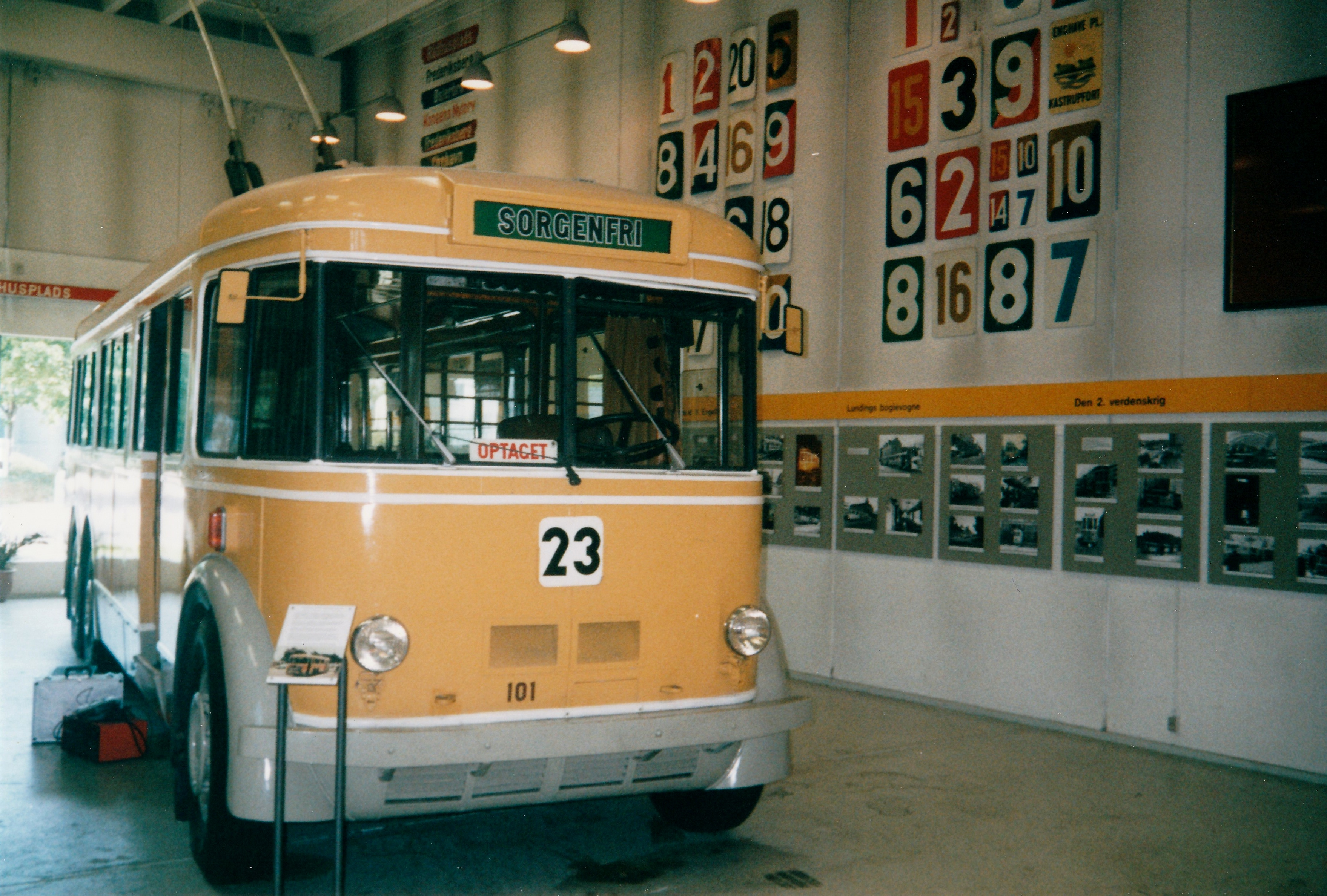 Old trolleybus of Copenhagen, KS 101 from 1938, at HT Museum in Rødovre in Copenhagen. The museum existed from 1984 to 2003. Then the whole collection was handed over to Sporvejsmuseet Skjoldenæsholm, where the bus has been put on display.